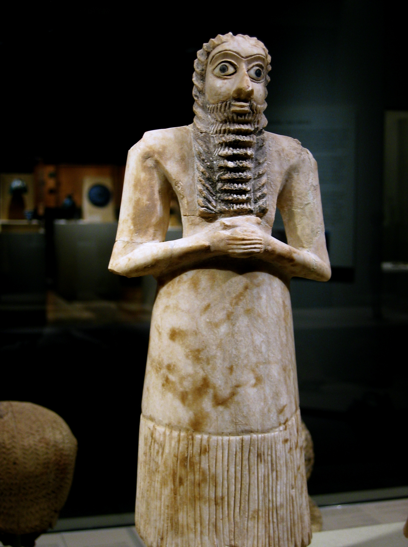 Original caption from photographer "Rosemaniakos" on Flickr: Votive figure Standing male worshiper, 2750-2600 B.C. (!!!) Mesopotamia, Eshnunna (modern Tell Asmar) Alabaster (gypsum), shell, black limestone, bitumen; H. 29.5 cm Fletcher Fund, 1940 (40.156) In Mesopotamia gods were thought to be physically present in the materials and experiences of daily life. Enlil, considered the most powerful Mesopotamian god during most of the third millennium B.C., was a "raging storm" or "wild bull," while the goddess Inanna reappeared in different guises as the morning and evening star. Deities literally inhabited their cult statues after they had been animated by the proper rituals, and fragments of worn statues were preserved within the walls of the temple. This standing figure, with clasped hands and a wide-eyed gaze, is a worshiper. It was placed in the "Square Temple" at Tell Asmar, perhaps dedicated to the god Abu, in order to pray perpetually on behalf of the person it represented. For humans equally were considered to be physically present in their statues. Similar statues were sometimes inscribed with the names of rulers and their families.Tell Asmar male worshiper votive sculpture 2750-2600 B.C